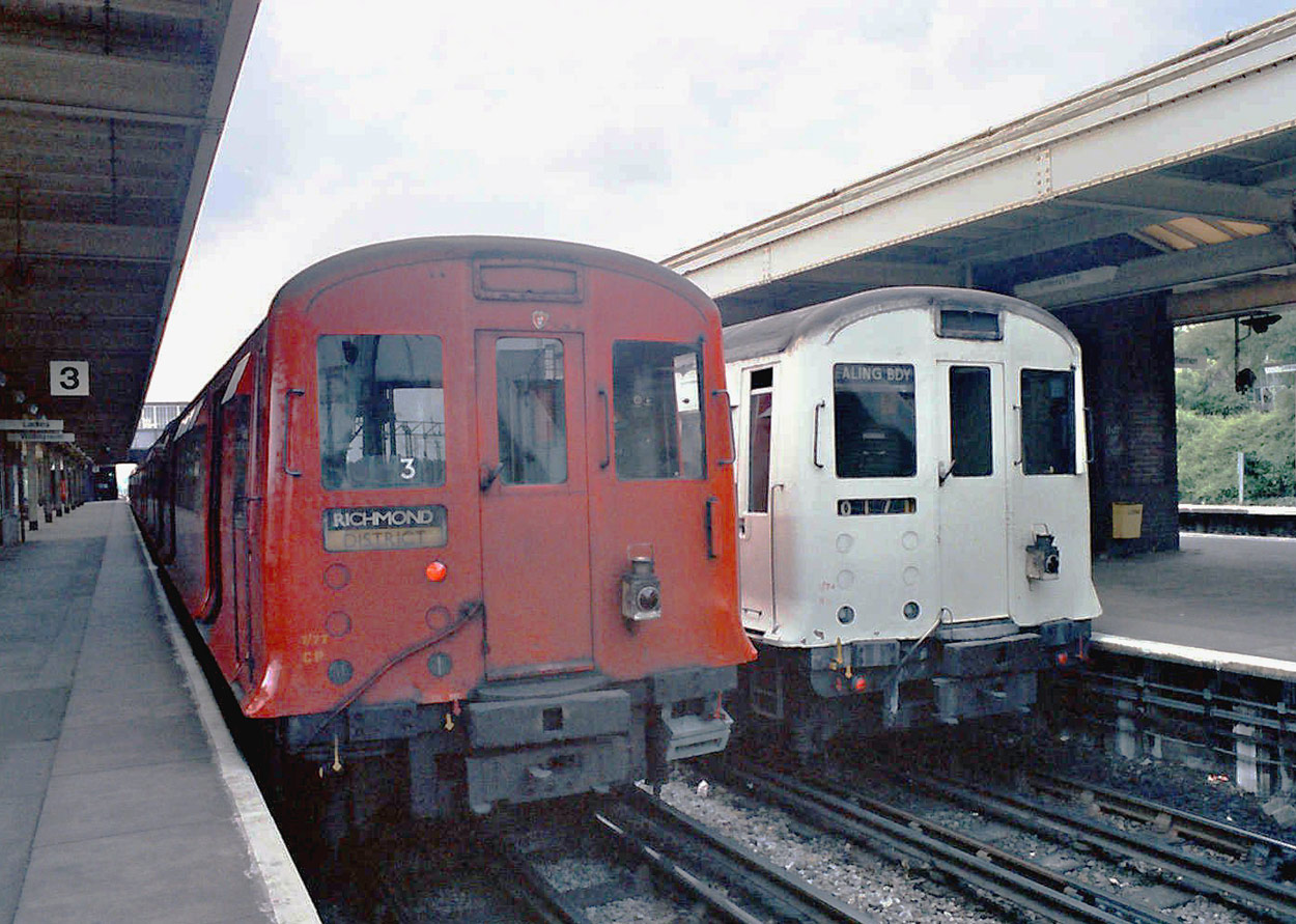 CP (red) and R (white) stock District Line trains at Upminster Station. Photographed by SPSmiler